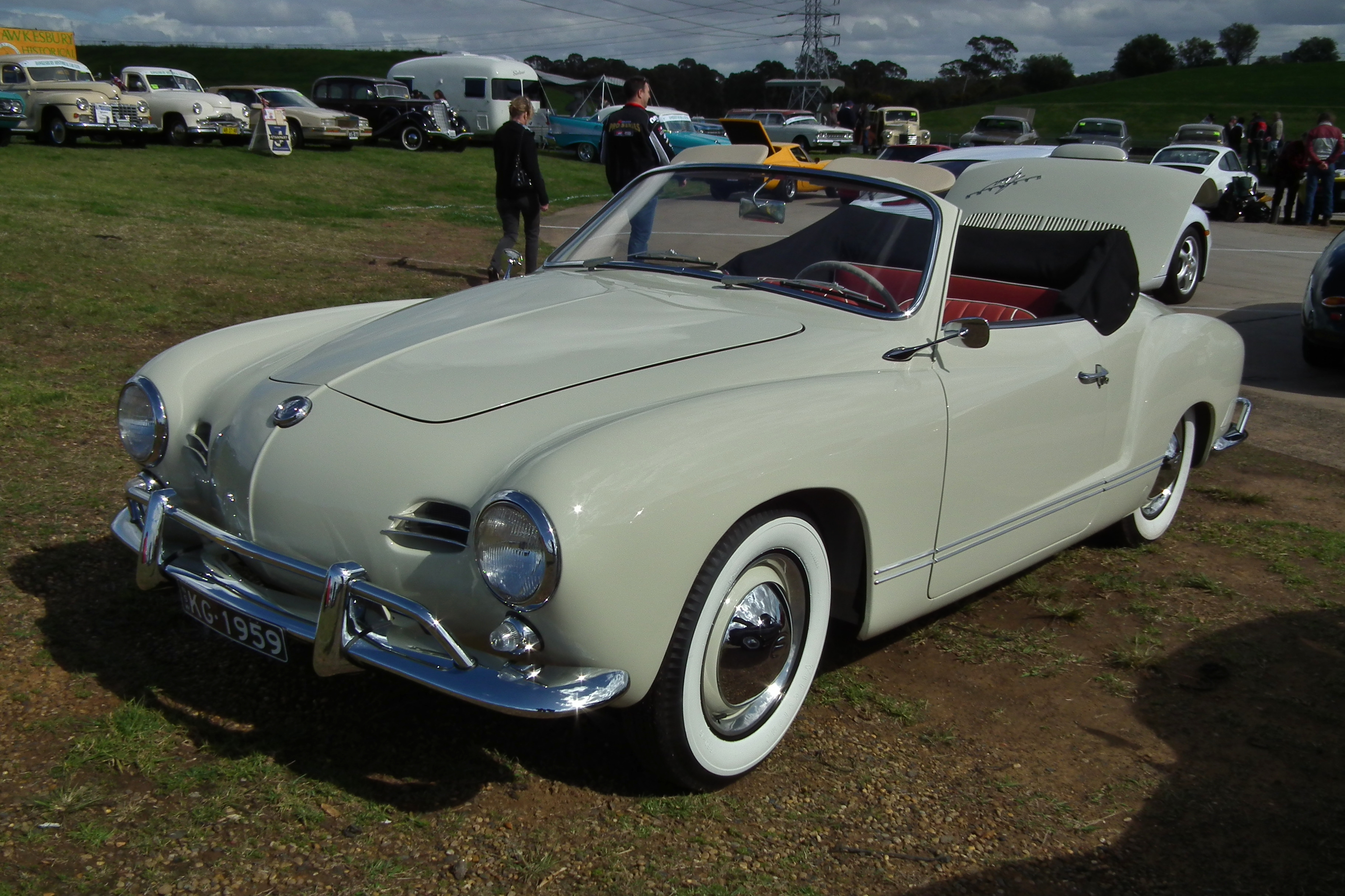 1959 Volkswagen Karmann-Ghia Type 14 convertible. Taken at Shannon's Eastern Creek Classic 2011, held at Eastern Creek Raceway Sydney.